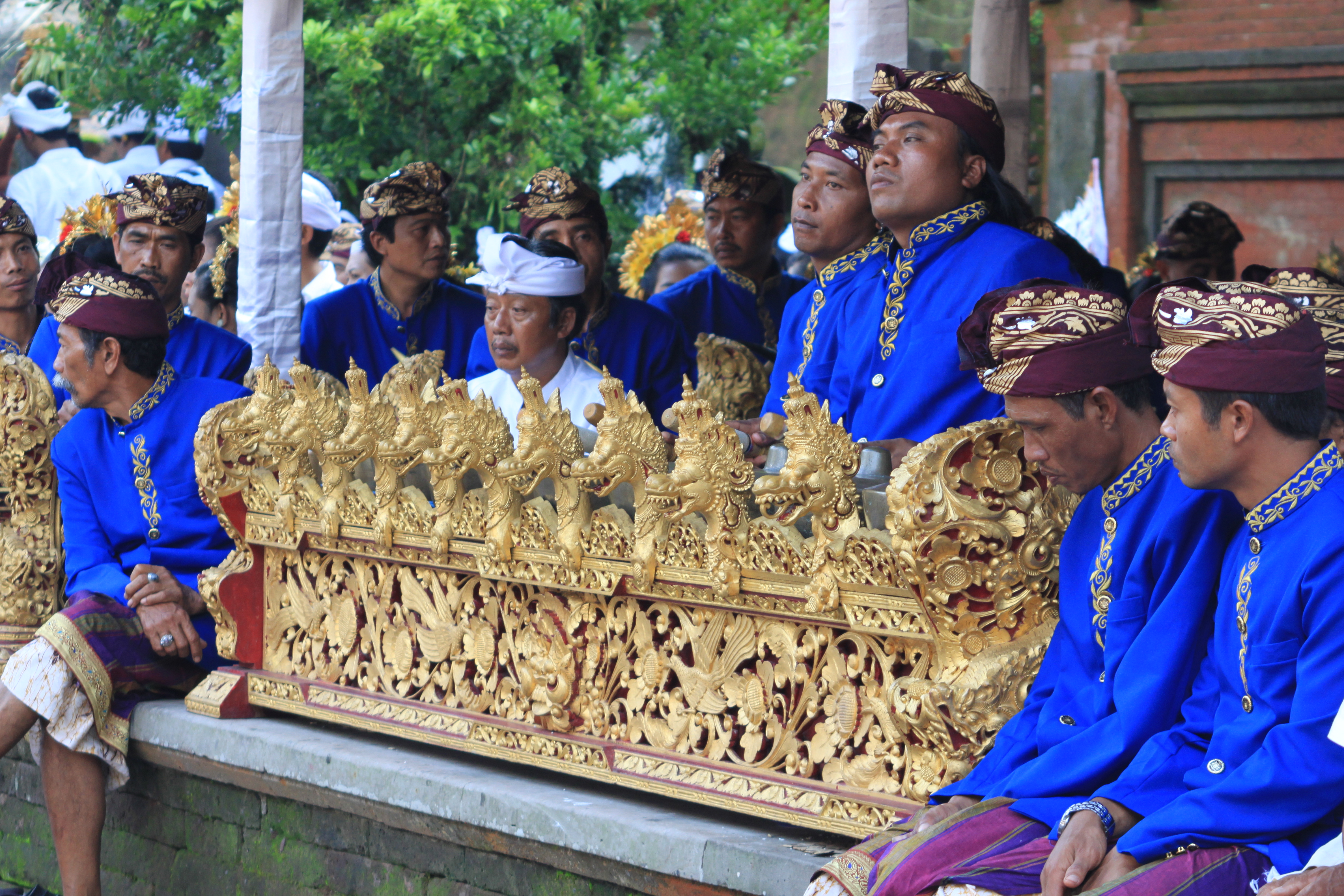 Balinese men playing gamelan